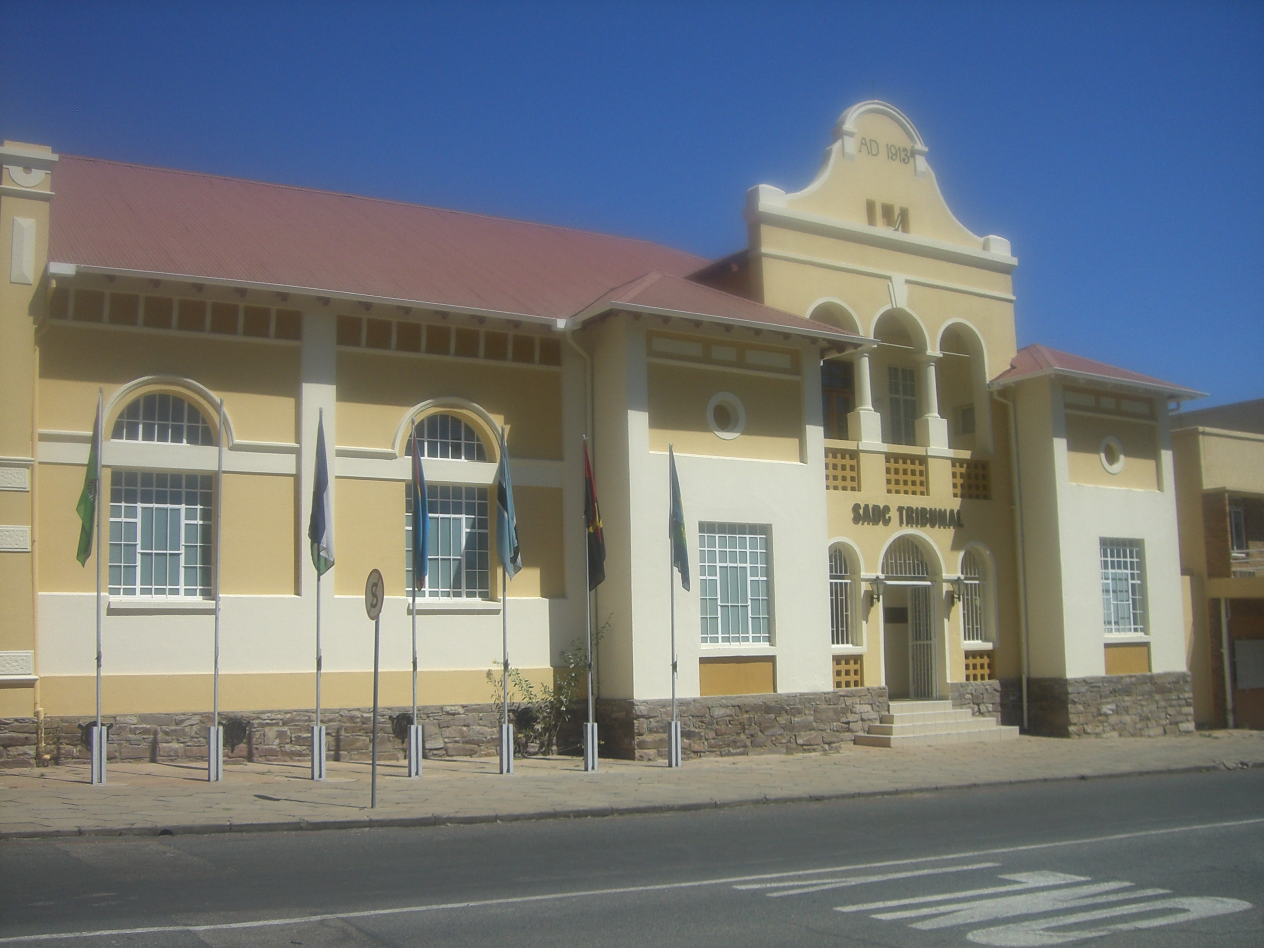 The historic Turnhalle (gymnasium) building in the heart of Windhoek. Today the offices of the SADC tribunal court